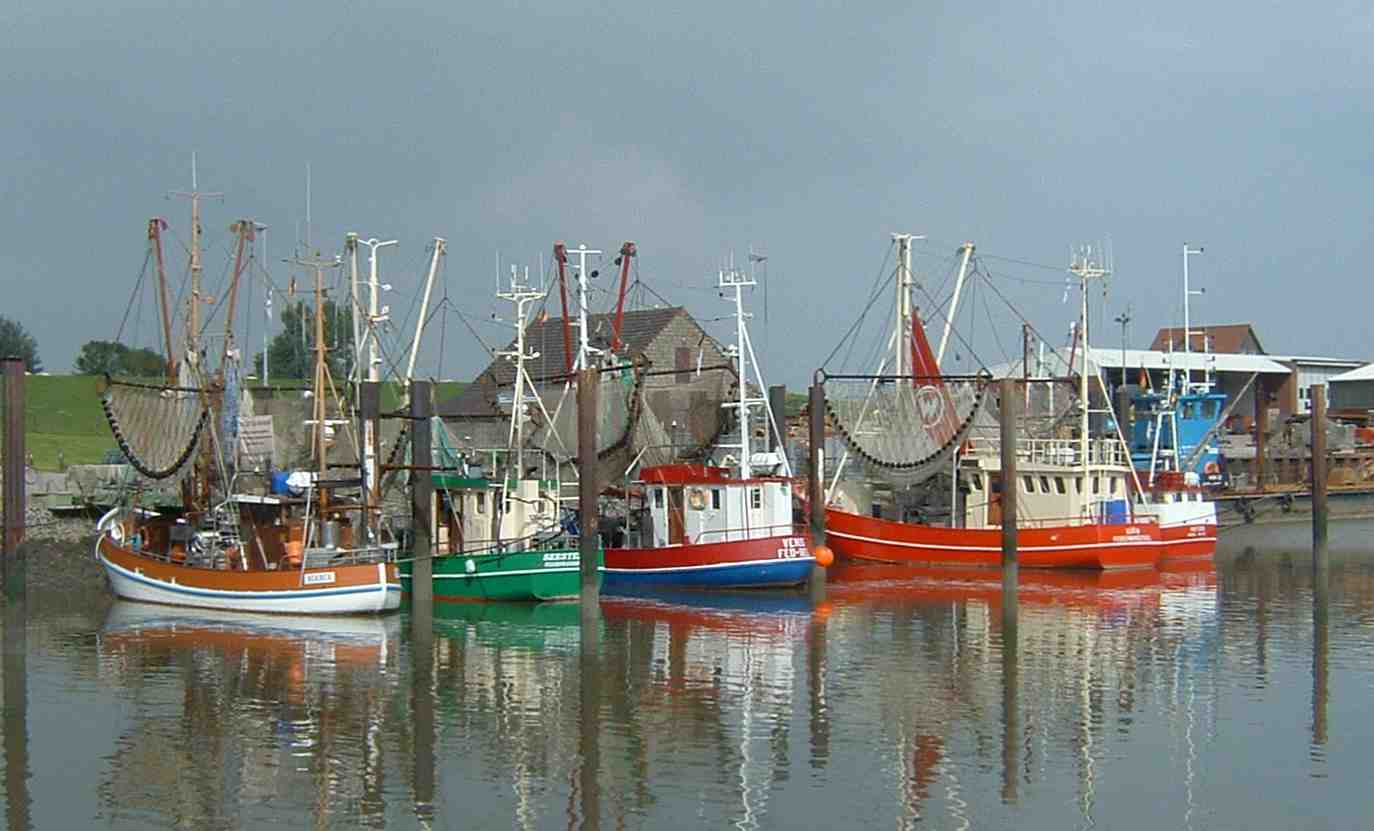 Fishing Boats in the Harbour of Fedderwardersiel